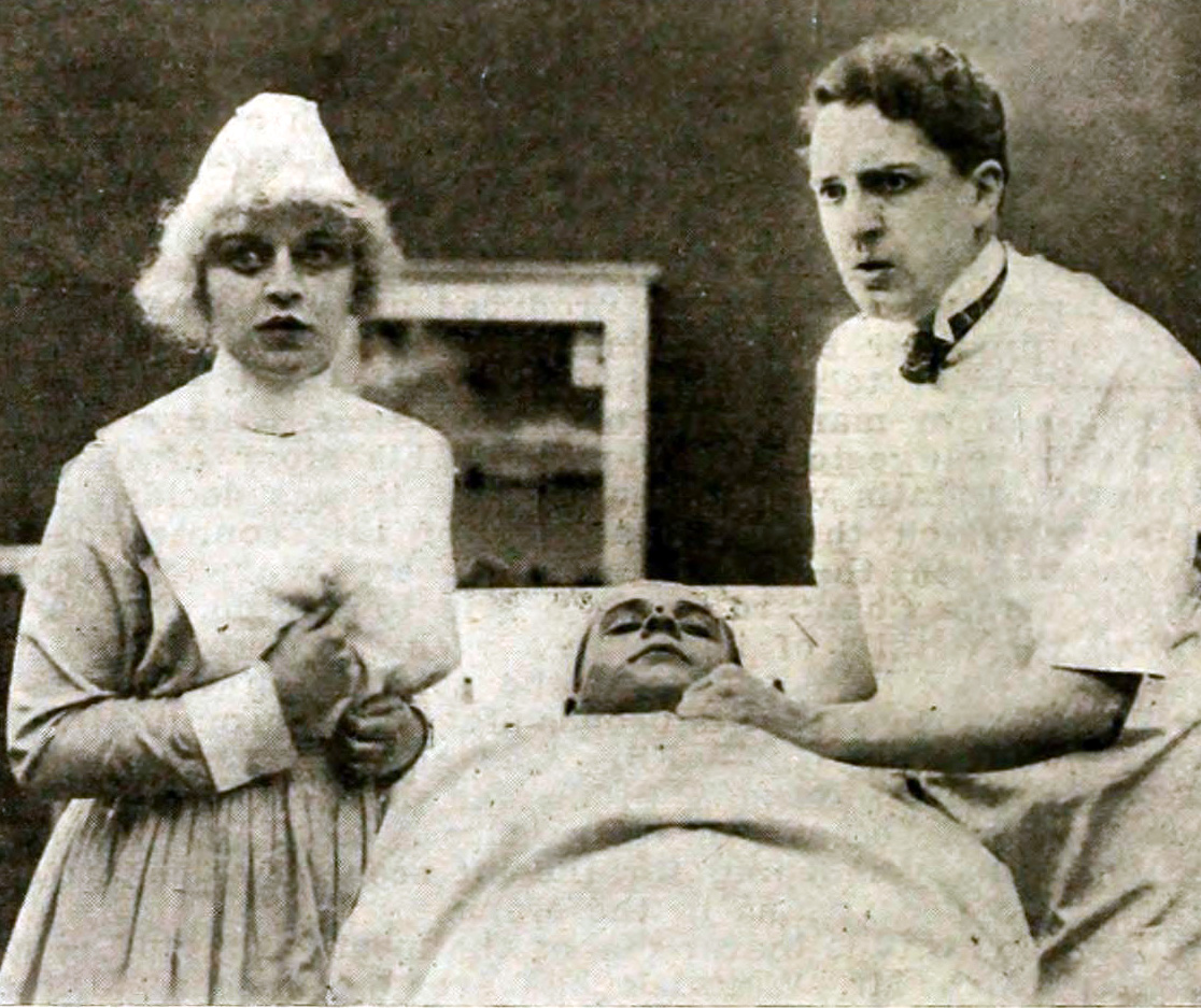 Illustration of an article in The Moving Picture World for The Promise Land (1916) with Bryant Washburn and Marguerite Clayton.